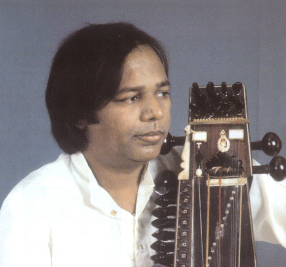 Close-up of Ram Narayan and his sarangi, dated 1974 in Narayan, Ram (2009). एक सुर मेरा एक सारंगी का. New Delhi: Kitabghar Prakashan.